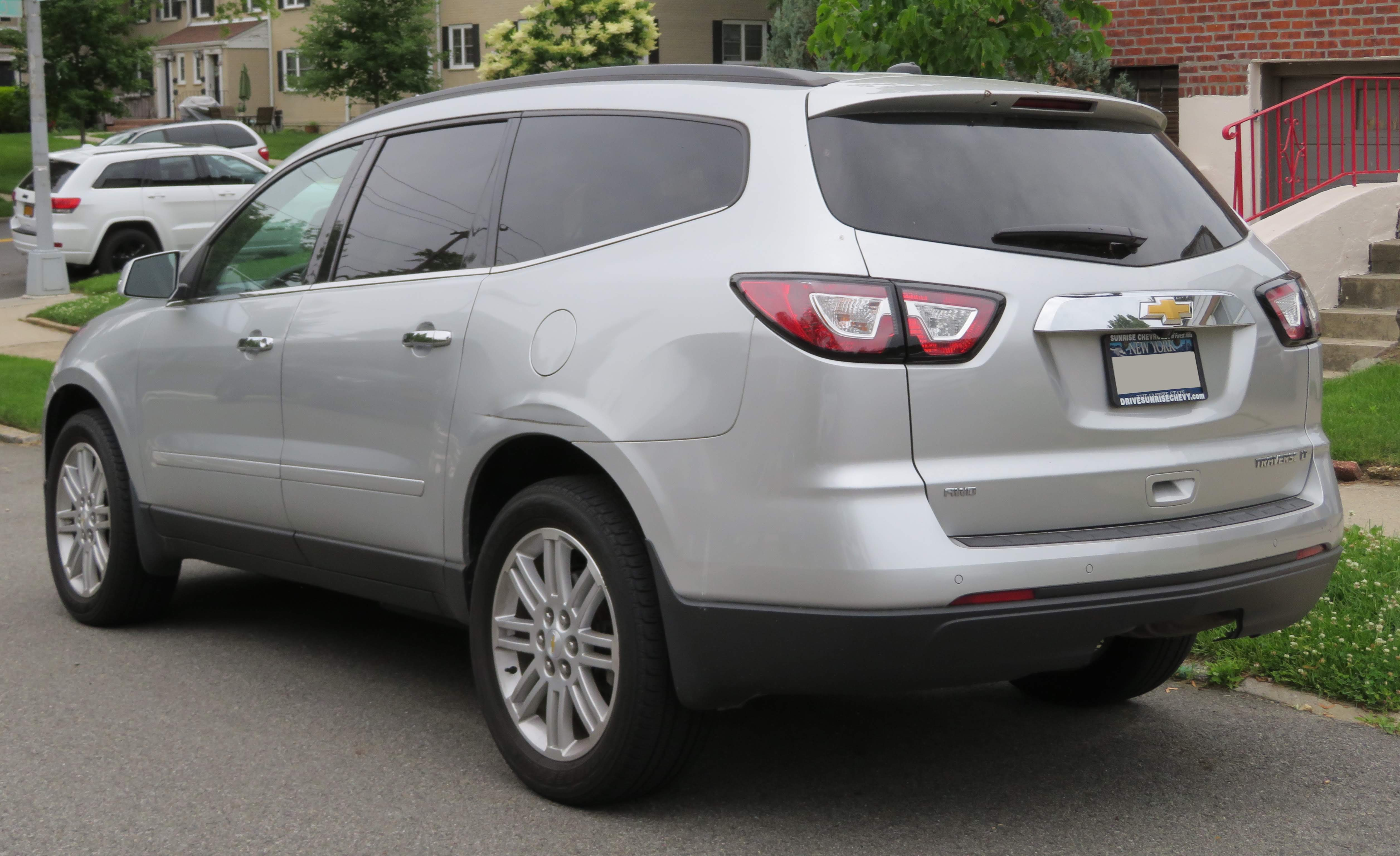 Photographed in Queens, New York